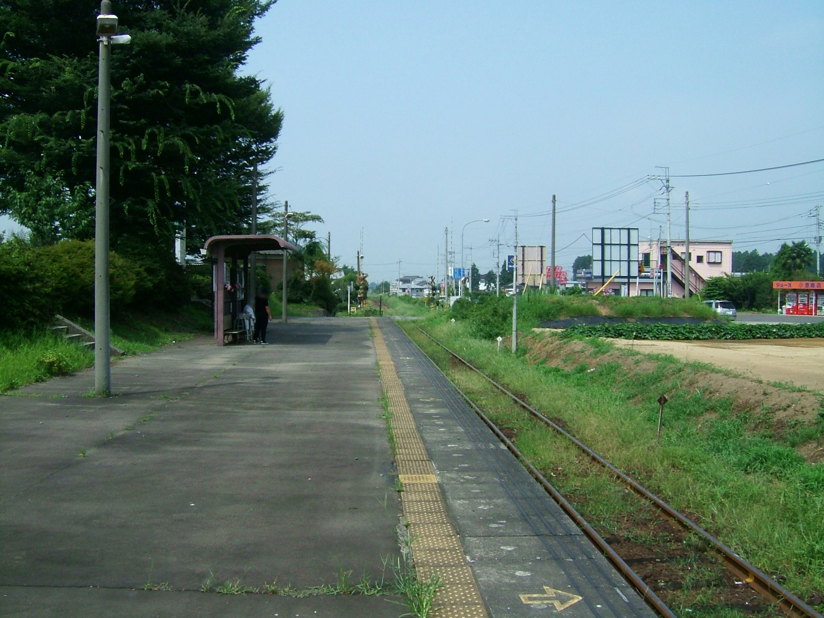 The platform of Kitayama Station(Moka Railway Moka Line)